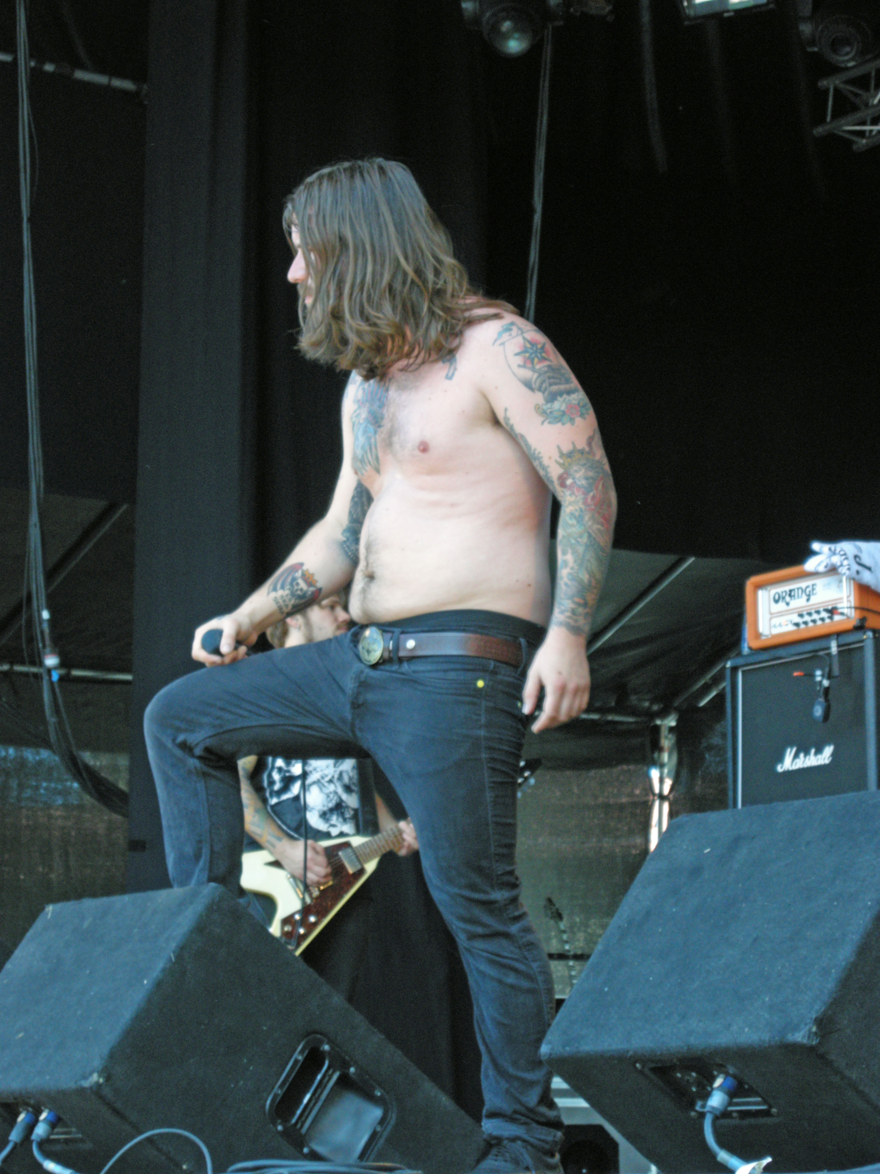 Norwegian singer Erlend Hjelvik with Kvelertak at Sonisphere Festival, Stockholm, Sweden 2011